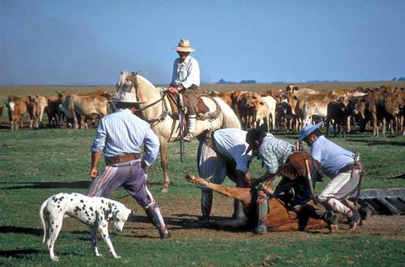 Gauchos working with farm animals in the Corrientes province, Argentina